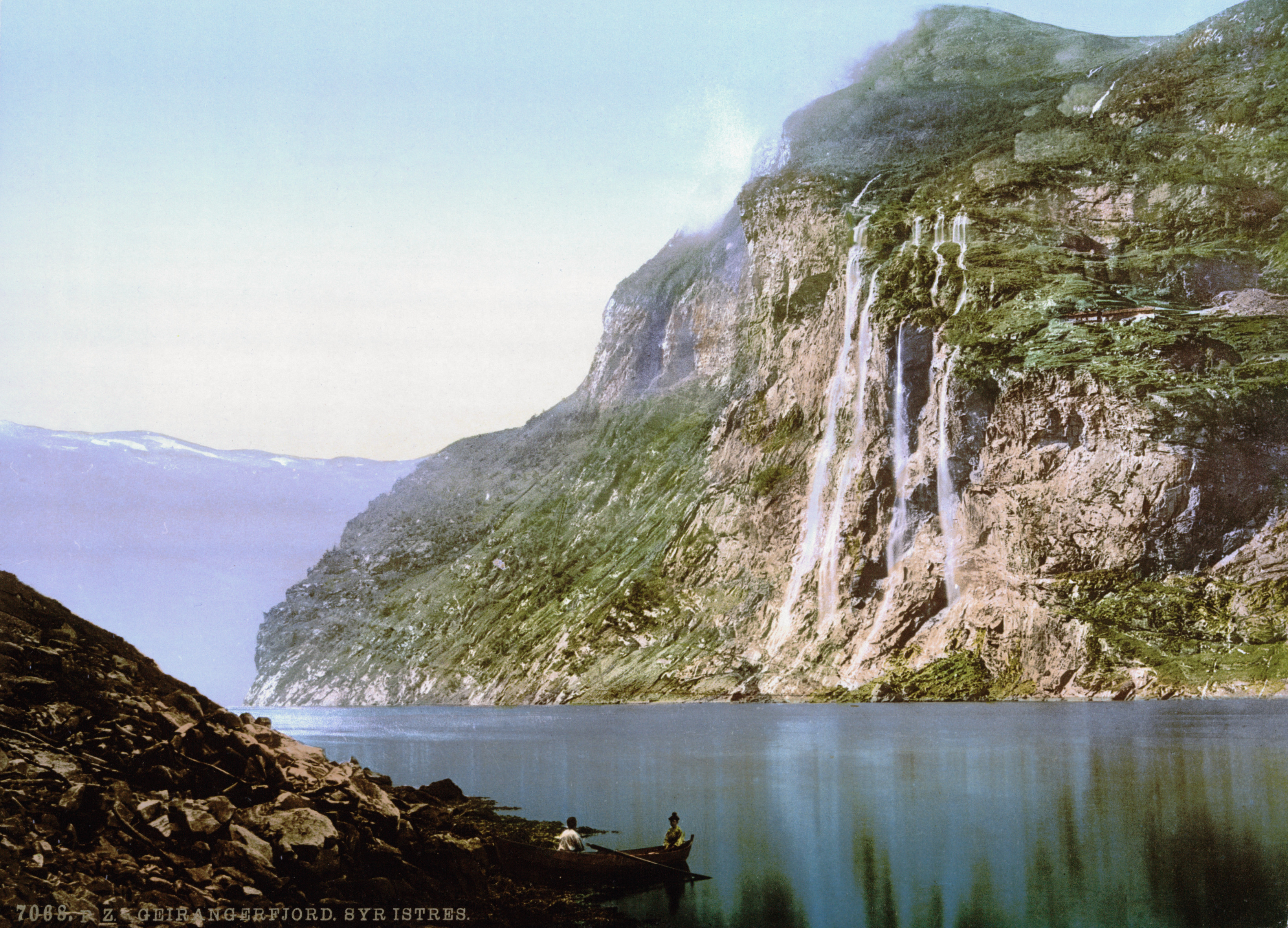 The Seven Sisters, Geiranger Fjord in Norway.